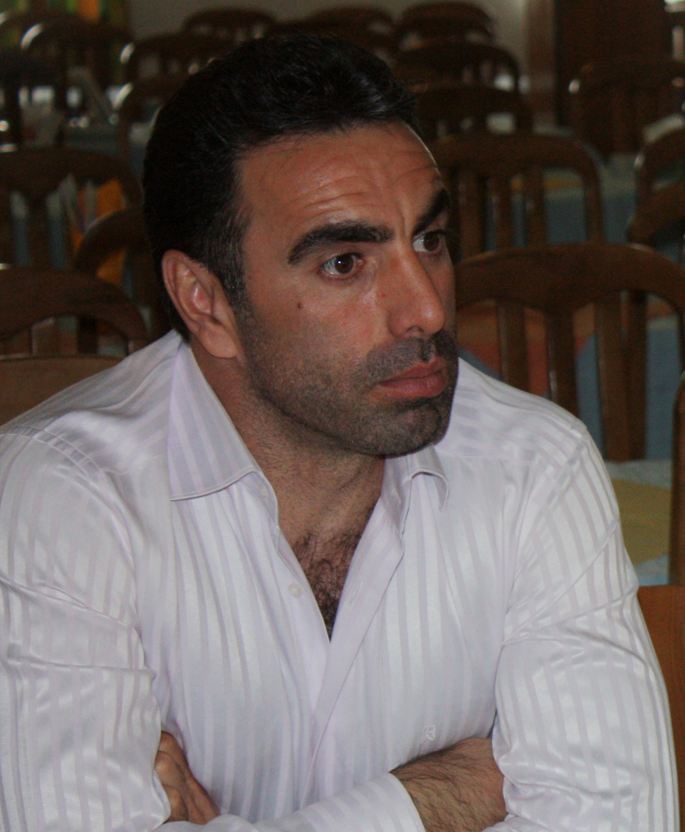 Mahmoud Fekri in Semnan - 2010, february